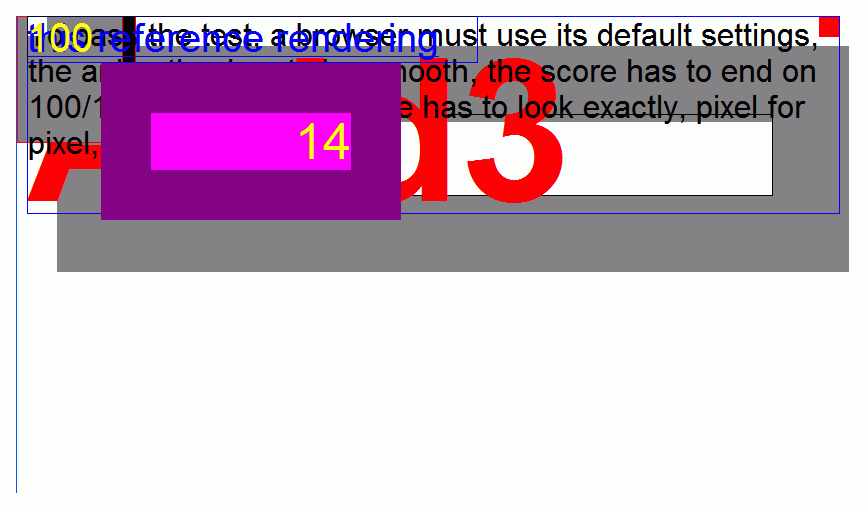 Acid3 (Wikipedia) on Windows Internet Explorer 7.0 (2006-10-18)